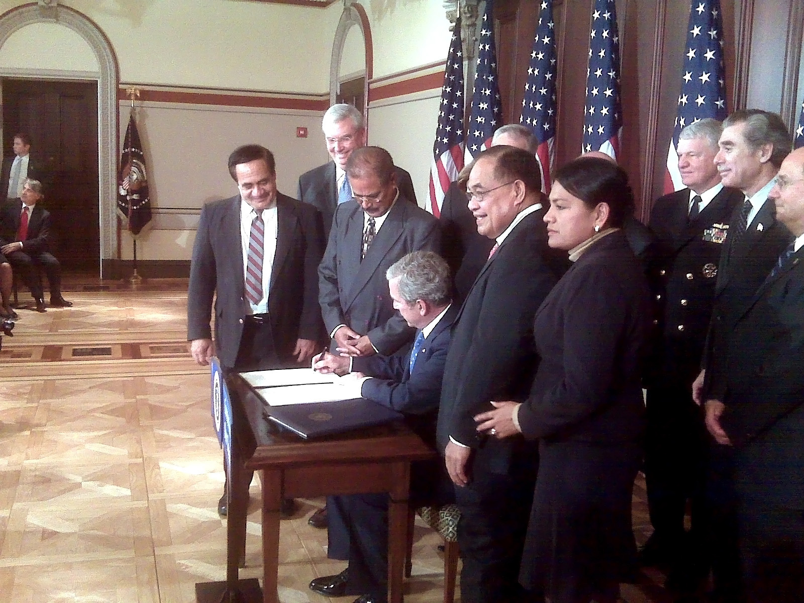 White House Signing 1/6/09; Photo by Doug Domenech; Front Row (Left to Right): Ray Tulafono, American Samoa Dir. Marine and Wildlife Resources; Mr. EPA Administrator (rear), ASGov. official; President Bush; CNMI Gov. Benigno Fitial; Mrs. Josie Fitial, First Lady of the Northern Mariana Islands. The signing created the Marianas Marine National Monument, the Pacific Remote Islands National Monument and the Rose Atoll Marine National Monument.